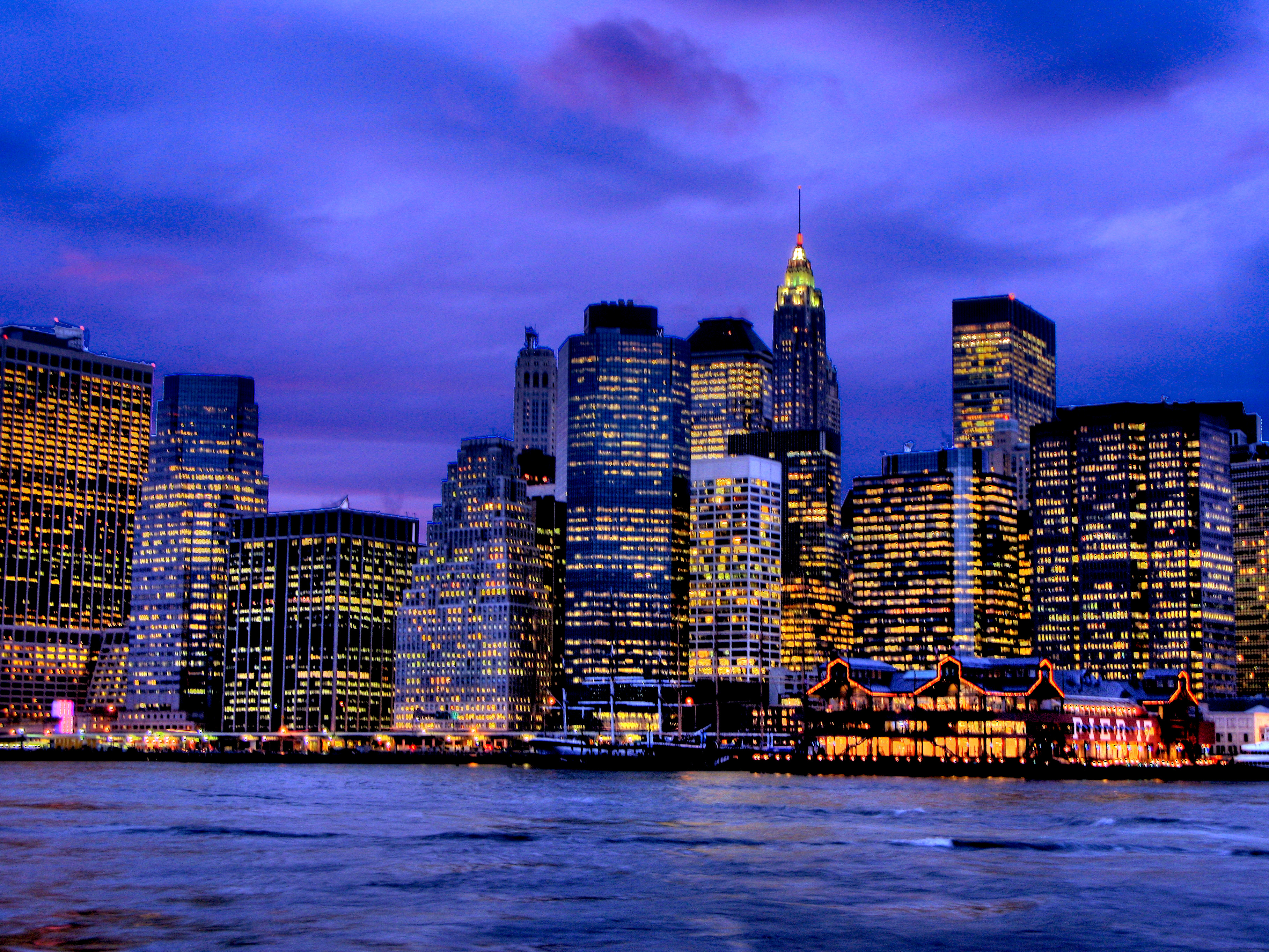 From Downtown Brooklyn See also File:Lower Manhattan by night.jpg